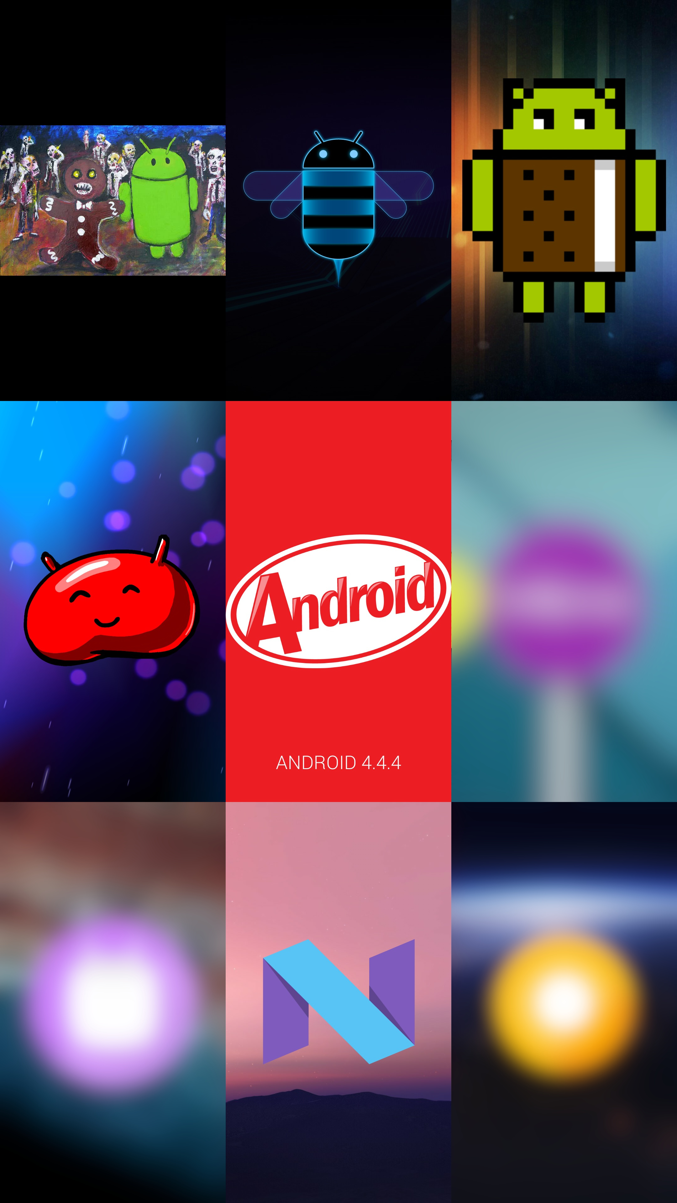 Android Gingerbread Android Honeycomb Android Ice Cream Sandwich Android Jelly Bean Android KitKat Android Lollipop Android Marshmallow Android Nougat Android Oreo